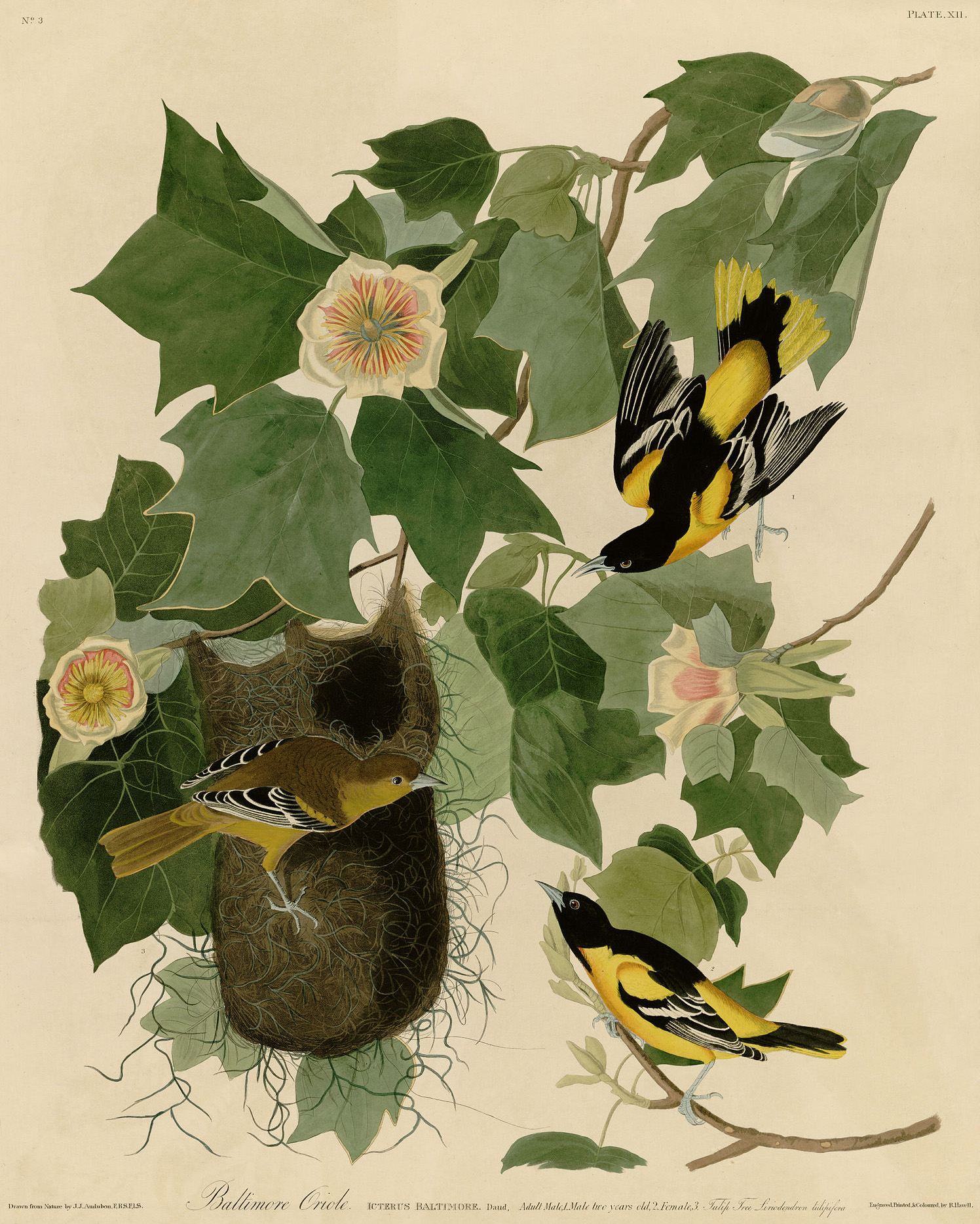 Plate 12 of Birds of America by John James Audubon depicting Baltimore Oriole.